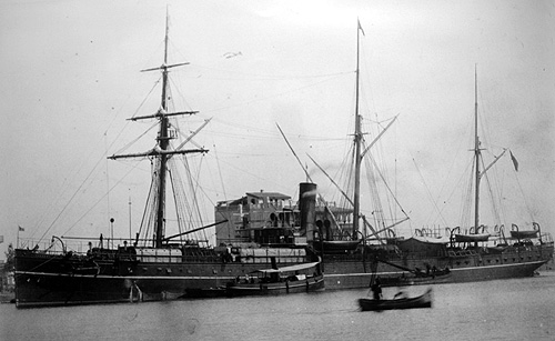 The SS Bokhara, which is moored in Great Britain during the 1880s. Picture from the Hong Kong Cricket Association